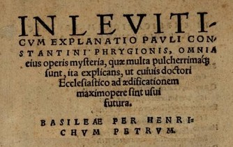 In Leviticum explanatio. - Basileae (1543) by Paulus Constantinus Phrygius (1483-1543)